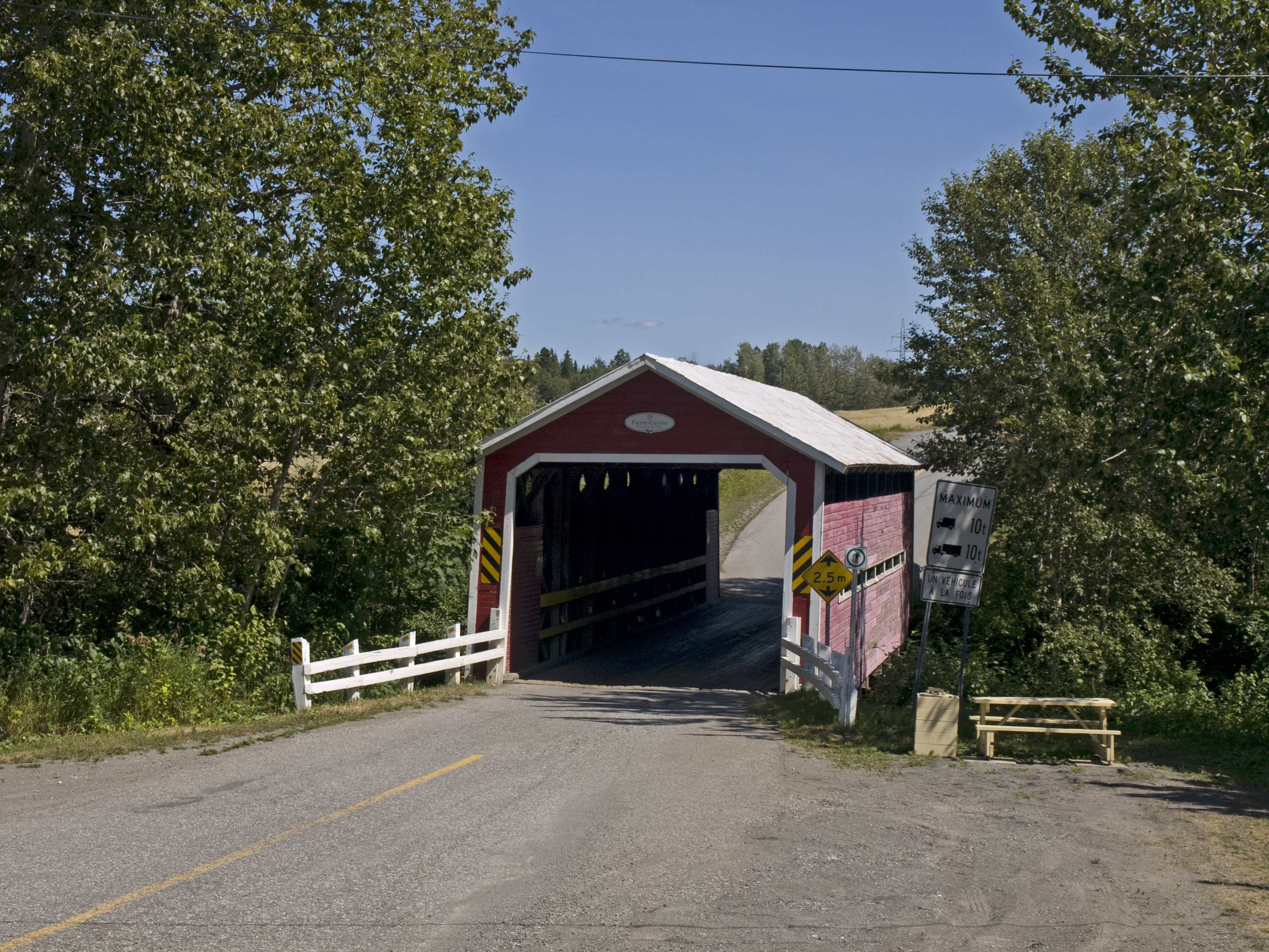 Pont Pierre-Carrier, Saint-Ulric